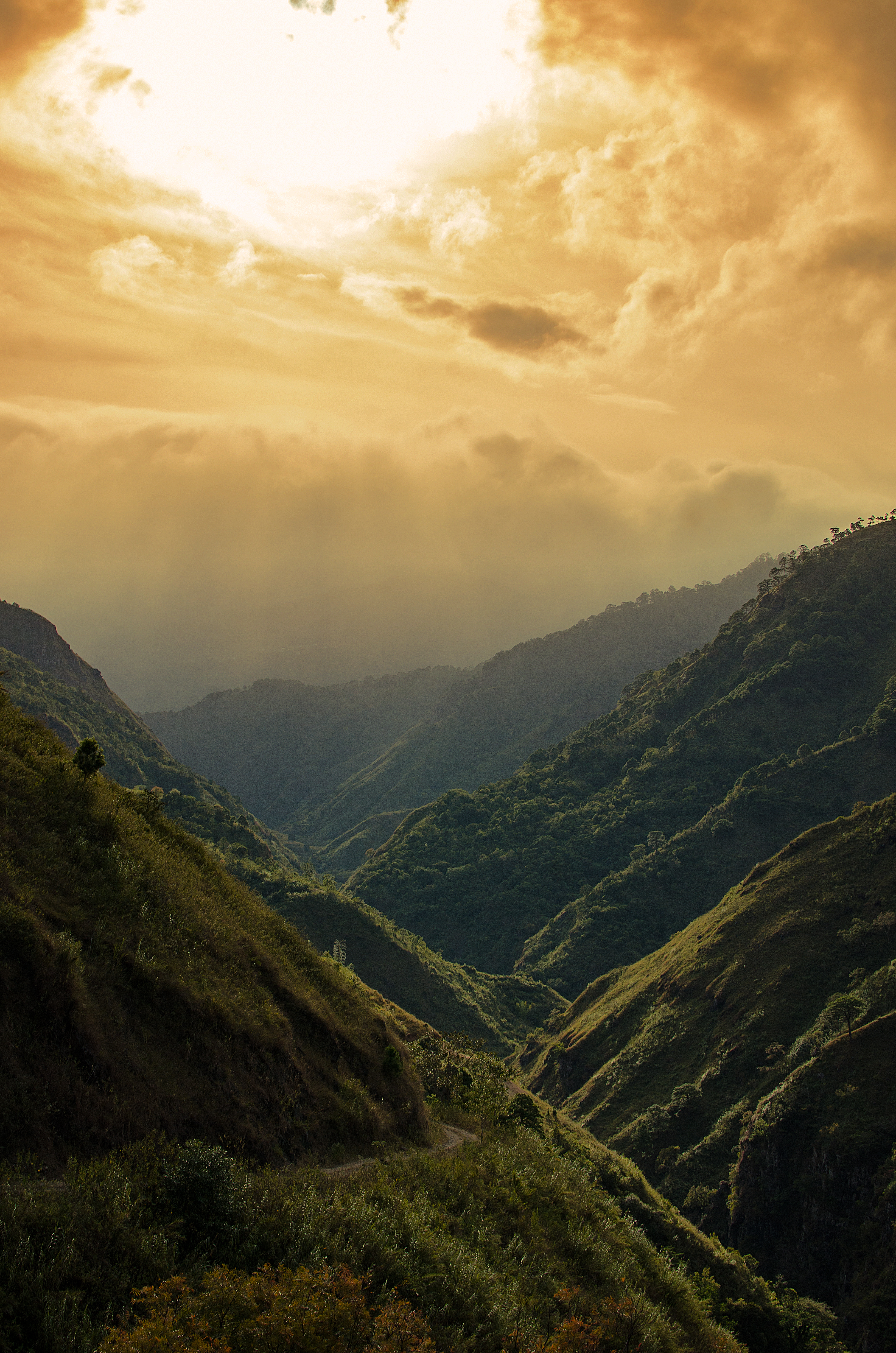 A 15 hours road trip Besao Mt. Province where culture never dies.